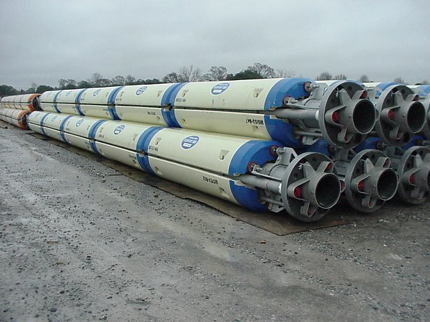 Marine drilling riser joints (with buoyancy modules)stacked in a yard.